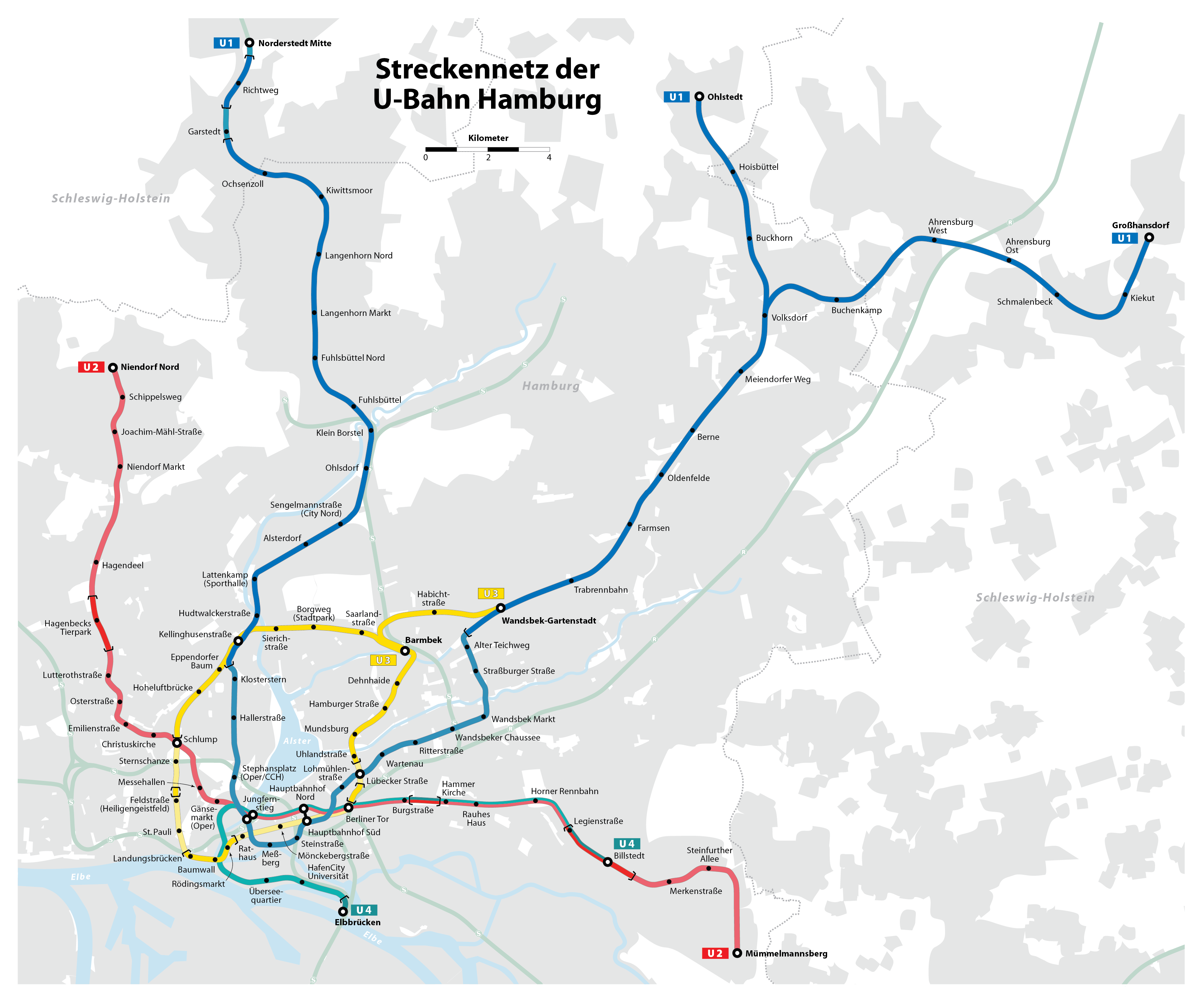 Hochbahn Hamburg Route Map